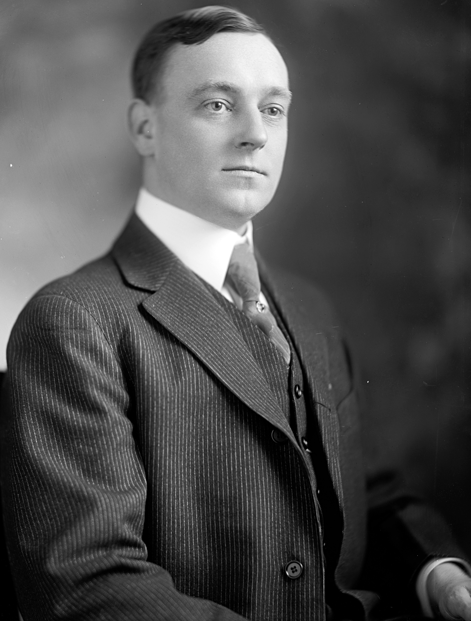 William Francis Murray, US Representative from Massachusetts